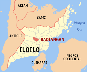 Map of Iloilo showing the location of Badiangan